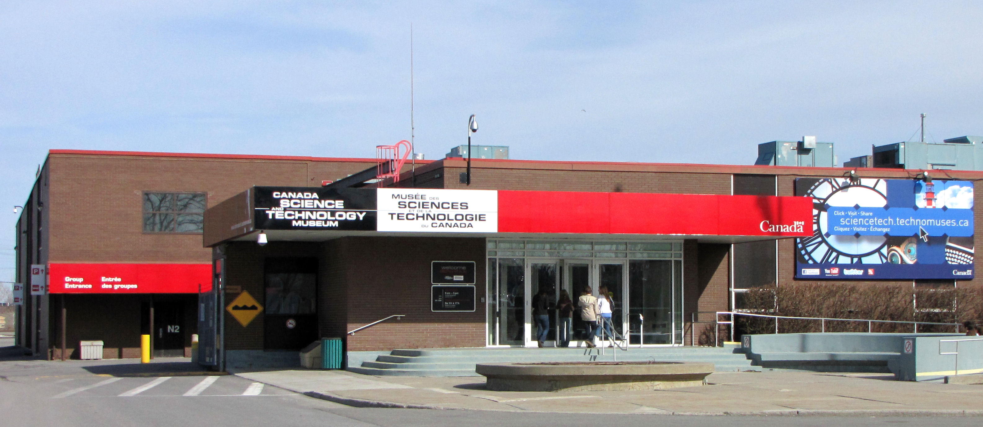 Canada Science and Technology Museum, front entrance